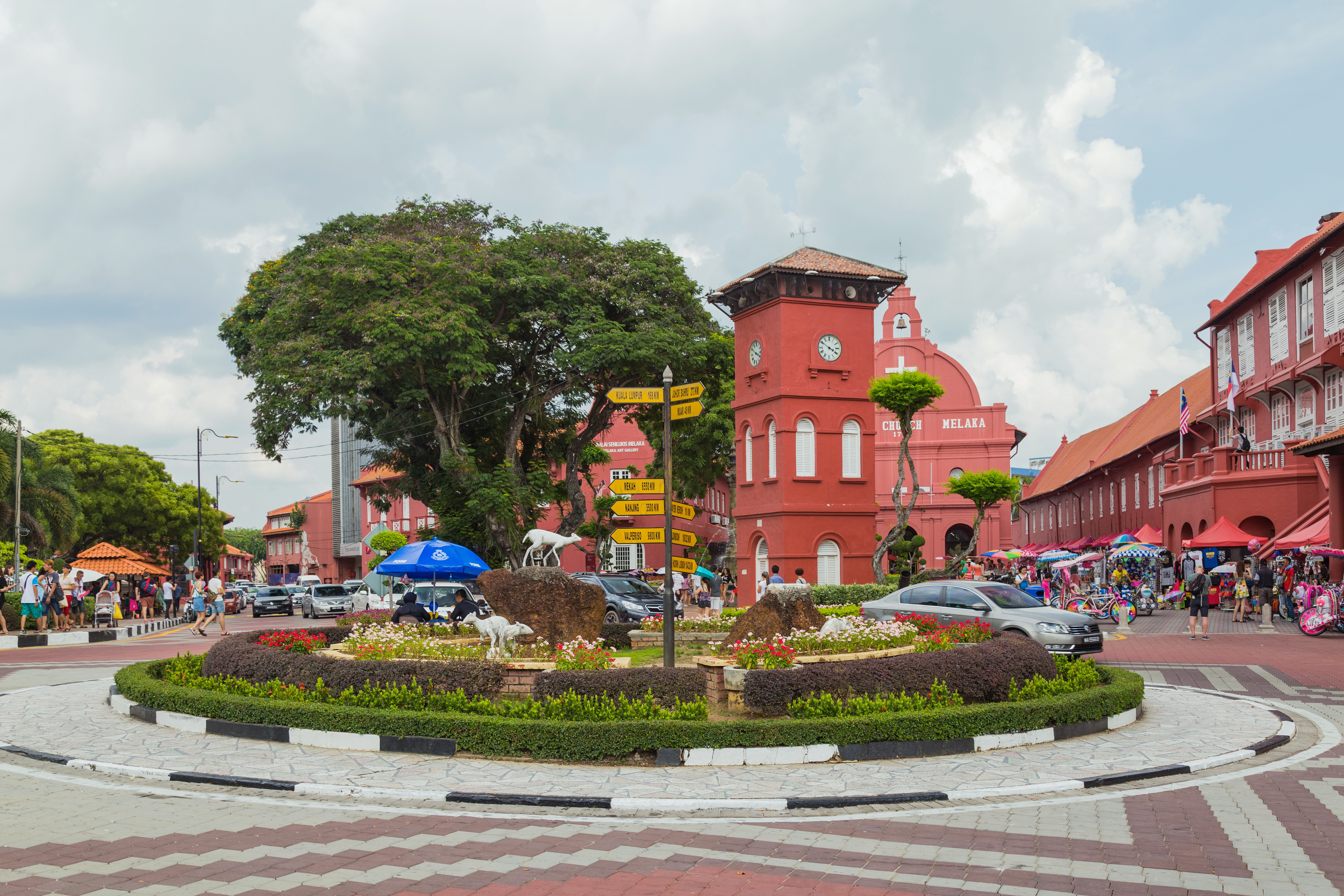 Dutch Square. Malacca City, Malacca, Malaysia.